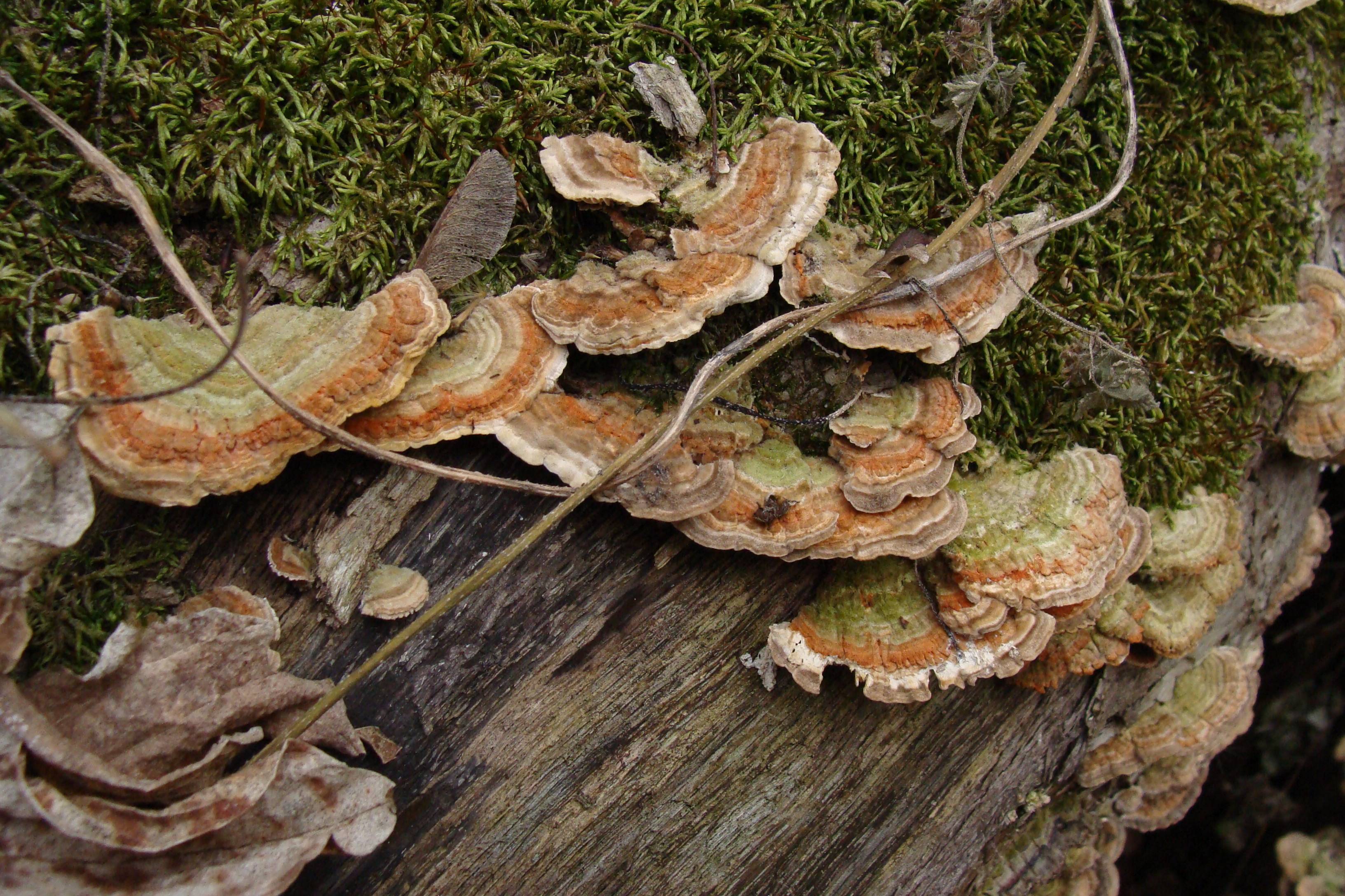 Lenzites betulina (L.) Fr. Image location: Creve Coeur Park, Maryland Heights, Missouri, USA